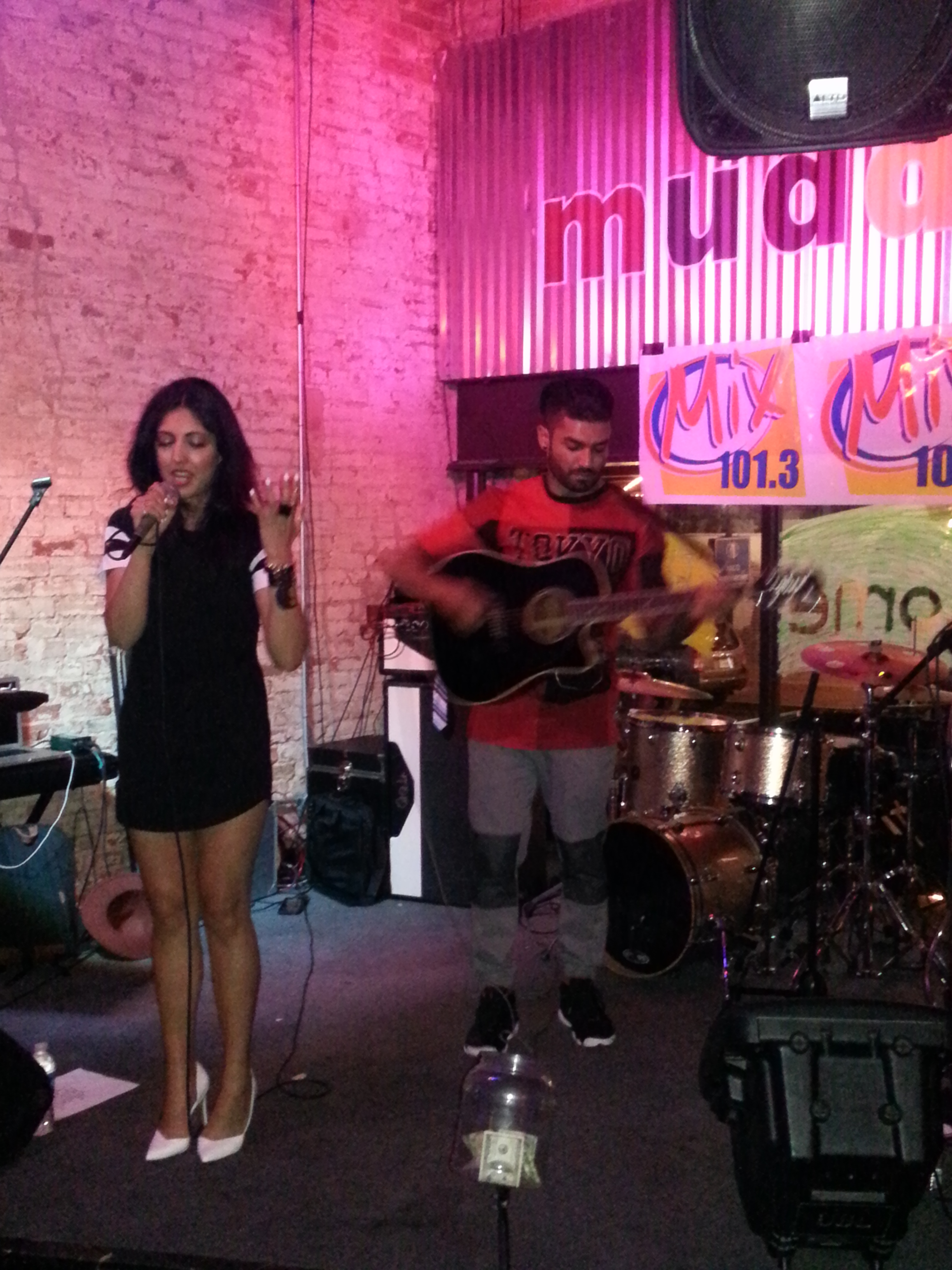 Queen of Kings performing in 2015